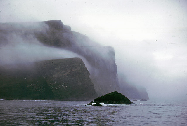 The cliffs of Foula The highest point, the Kame, is in the mist.